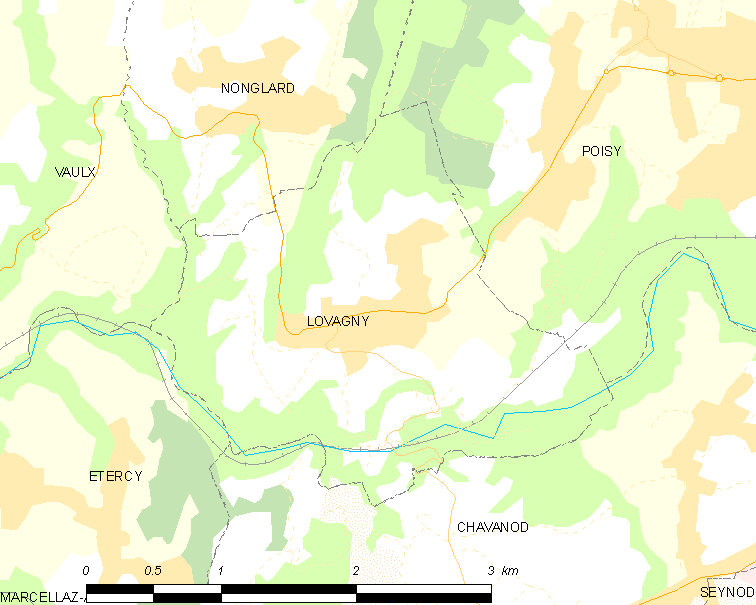 Map of French municipality Lovagny